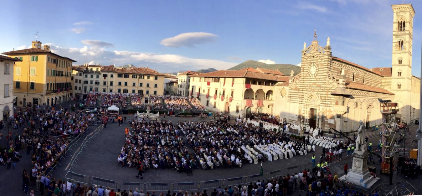 Prato, Italy, Bishop Giovanni Nerbini, Tuscany